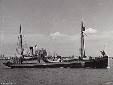 Royal Australian Navy ship HMAS Wyatt Earp going to sea from Nelson Pier, Williamstown, Victoria, preparing for voyage to Antarctica. Note deck cargo includes parts of a Royal Australian Air Force OS2U Kingfisher amphibian aircraft.